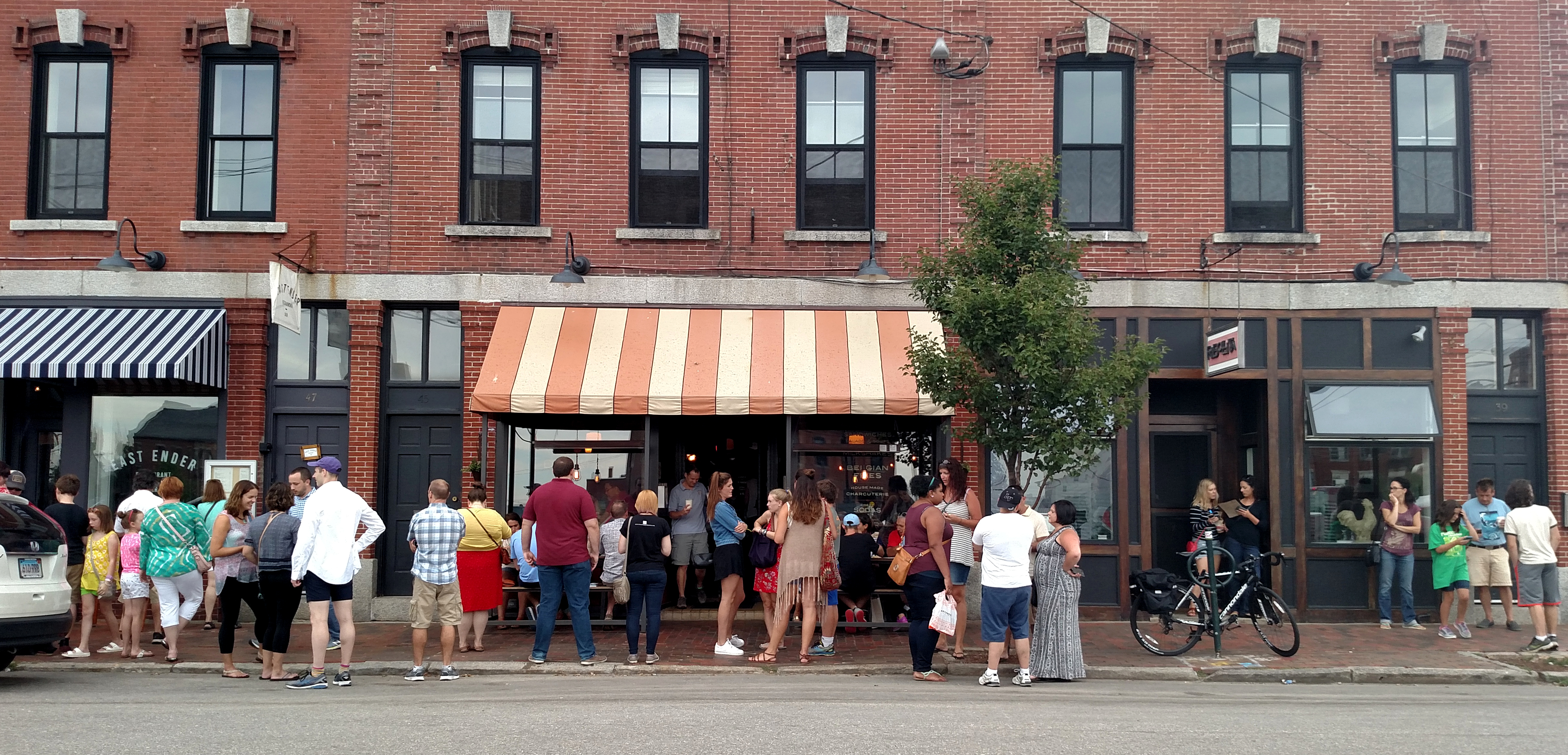 Restaurant scene in Portland Maine